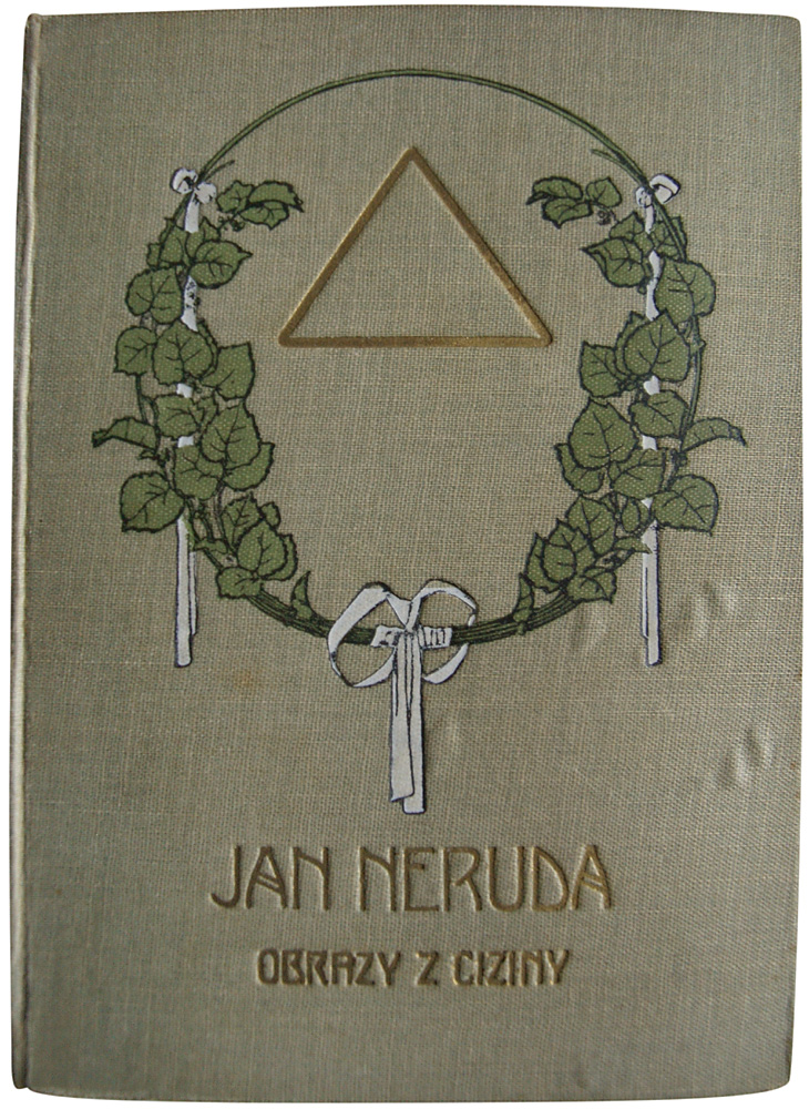 Jan Neruda’s (1834–1891) feuilleton book “Pictures from abroad” – 4th edition from year 1909, unknown graphic artist